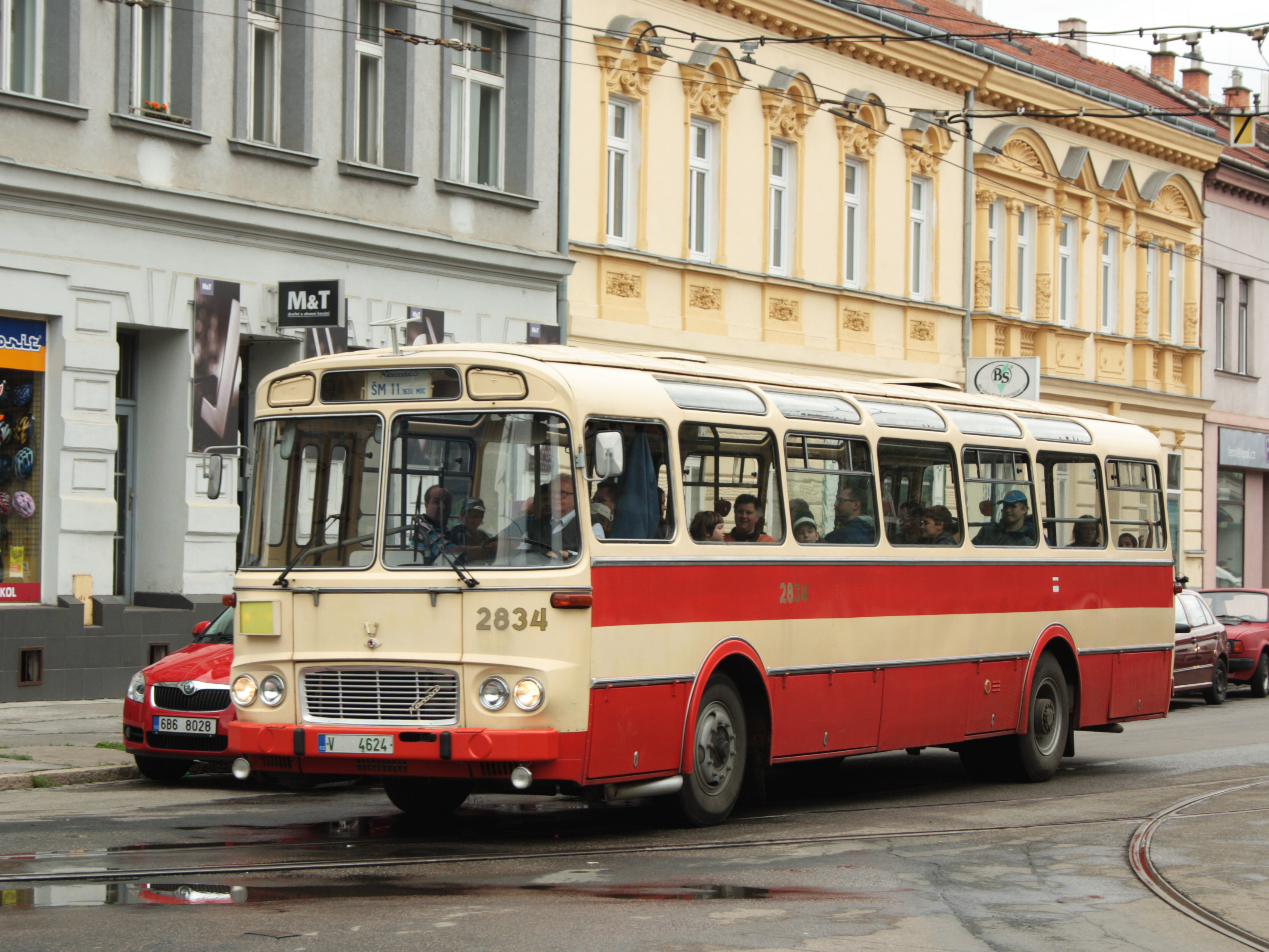 Karosa ŠM 11.1630 MOC No. 2834 historical bus of Technické muzeum v Brně, Brno, Czech Republic - OpenStreetMap(Info) This photograph was taken with DSLR from WMCZ's Camera grant